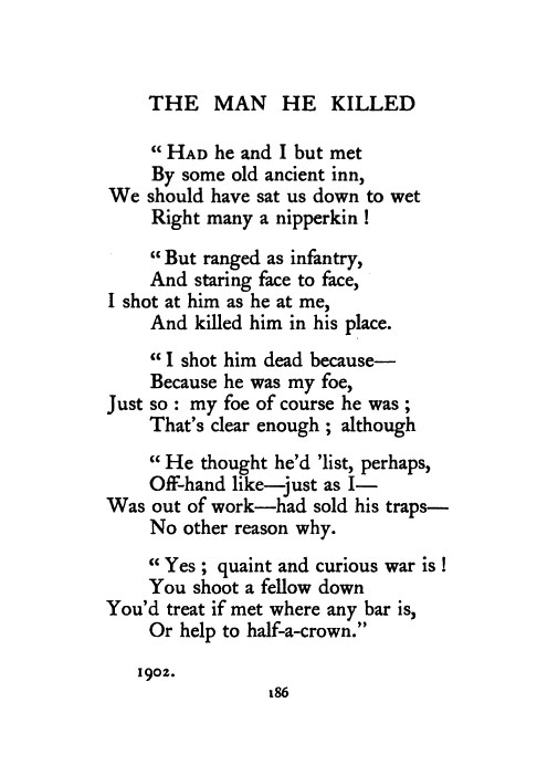 "The Man He Killed", a poem by English writer Thomas Hardy, as it appeared in Time's Laughingstocks and Other Verses. Originally written in 1902. London: MacMillan and Co., 1910 (reprinted from 1909), page 186.